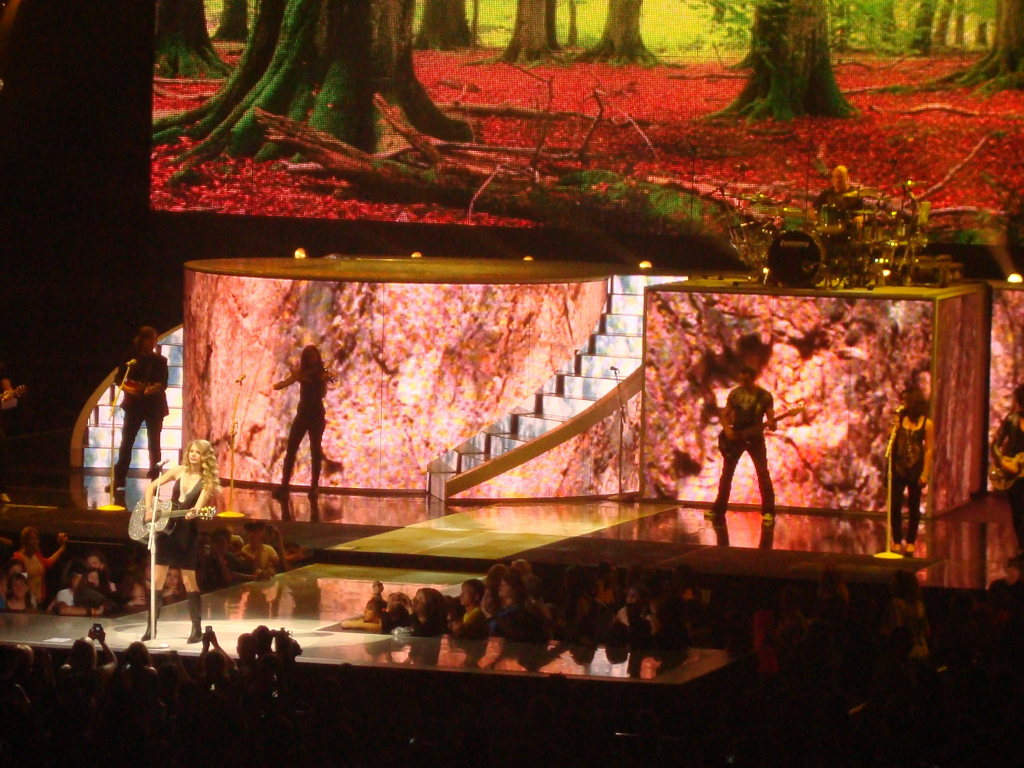 Country pop singer Taylor Swift singing on her Fearless Tour in Austin, Texas.